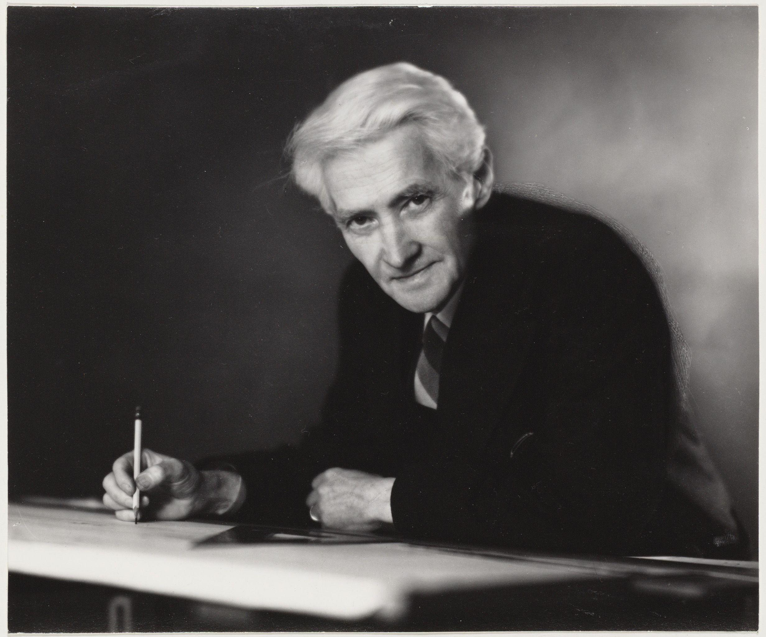 Willem Kromhout Czn. (1864-1940). Photograph by Jacob Merkelbach (1877-1942)